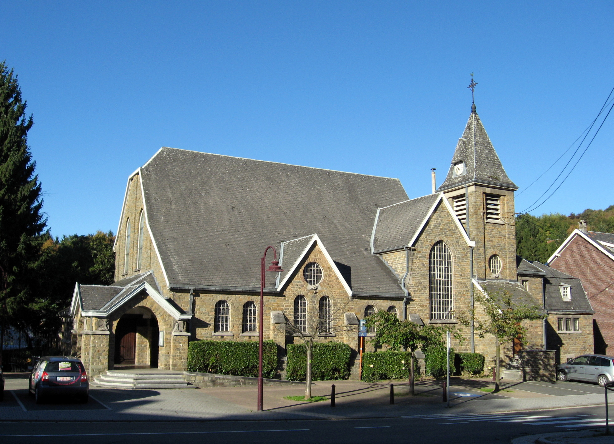 Church of the Immaculate Conception in Mangombroux, Heusy, Verviers, Liège, Belgium